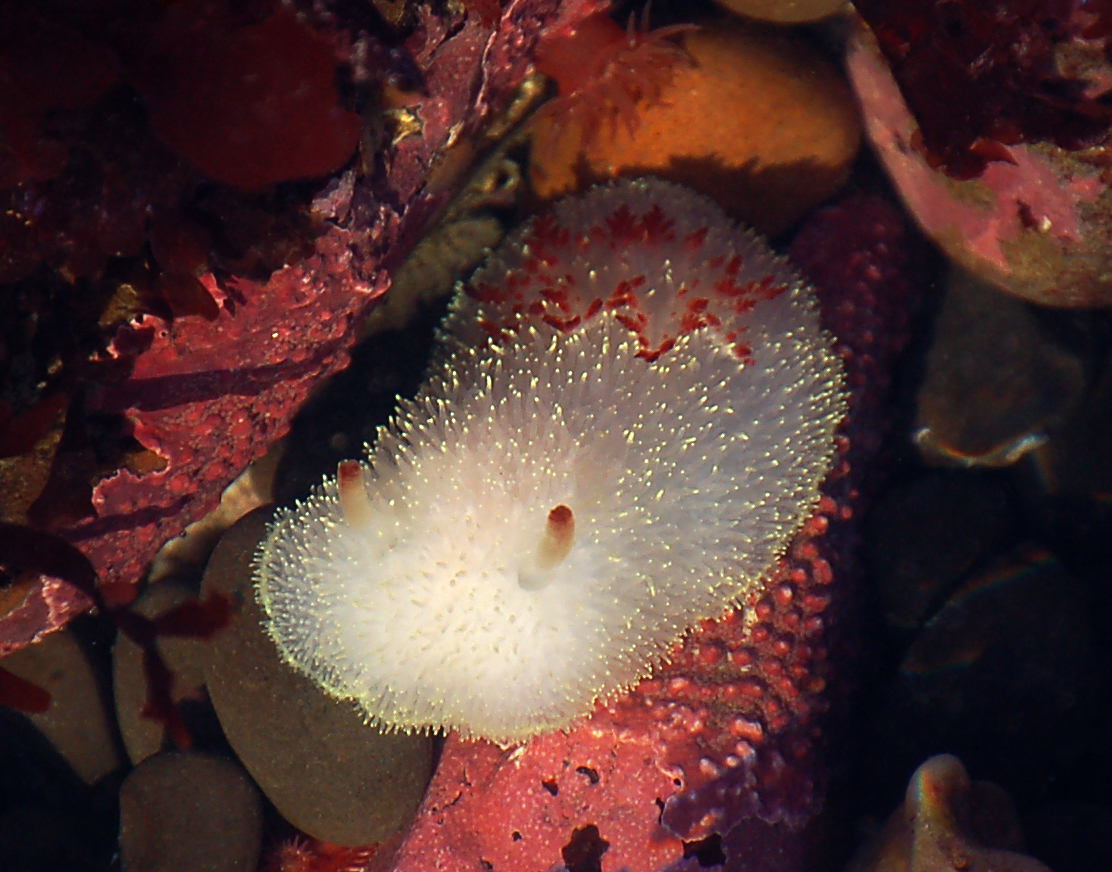 Acanthodoris nanaimoensisRufous-Tipped Nudibranch